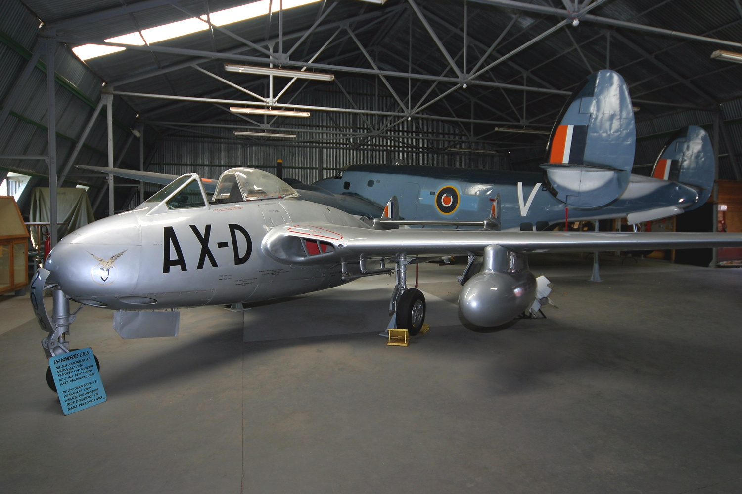 No. 208 assembled at Ysterplaat in 1950. Restored for museum by air depot and base personnel in 1989.